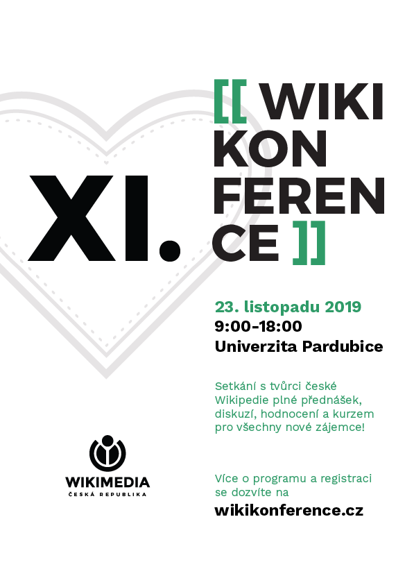 Leaflet Wikiconference Pardubice 2019